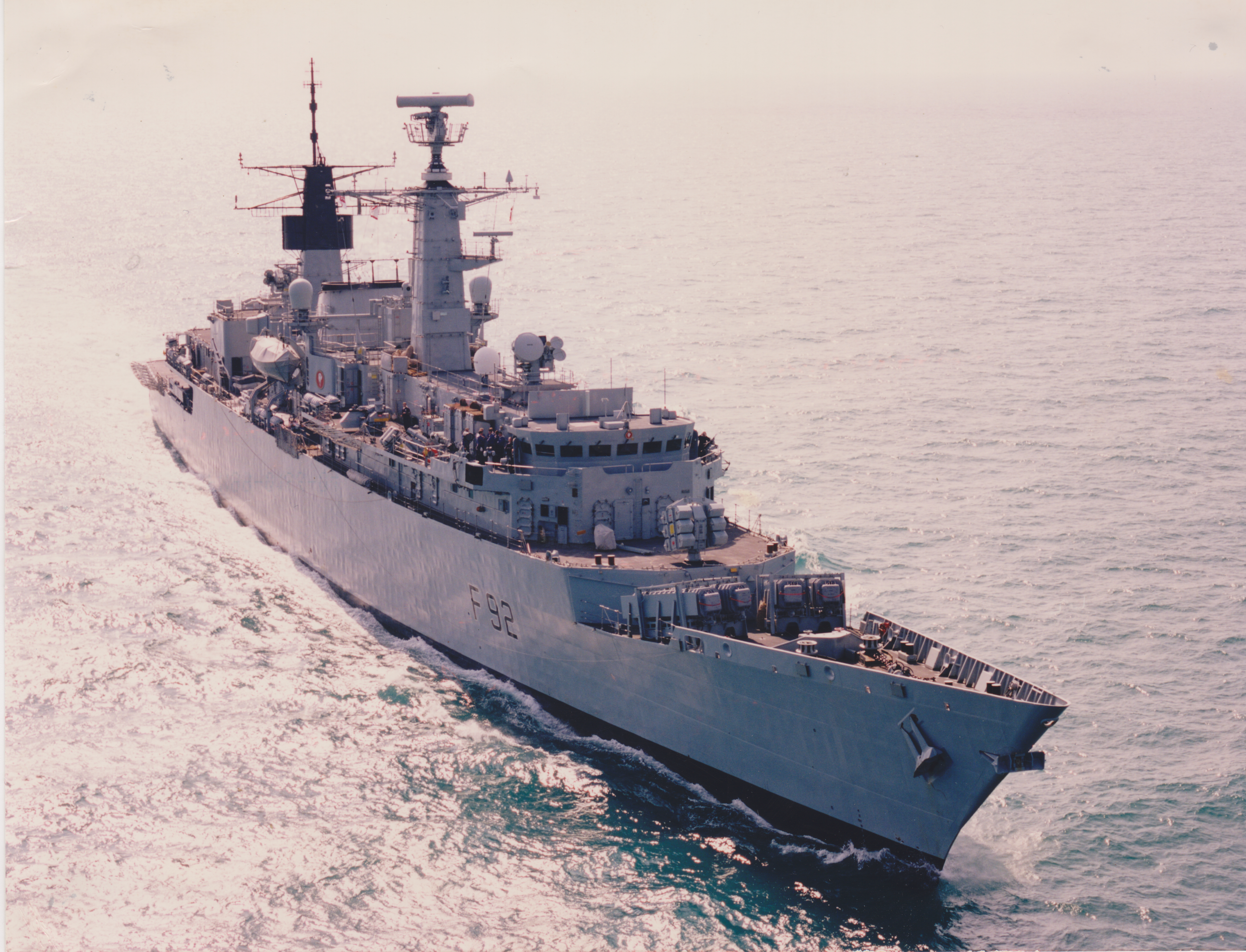 Royal Navy Frigate HMS Boxer F92 from the bows